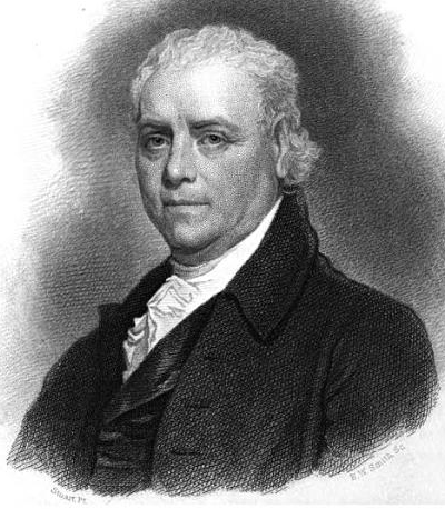 David Cobb, Lieutenant Governor of Massachusetts